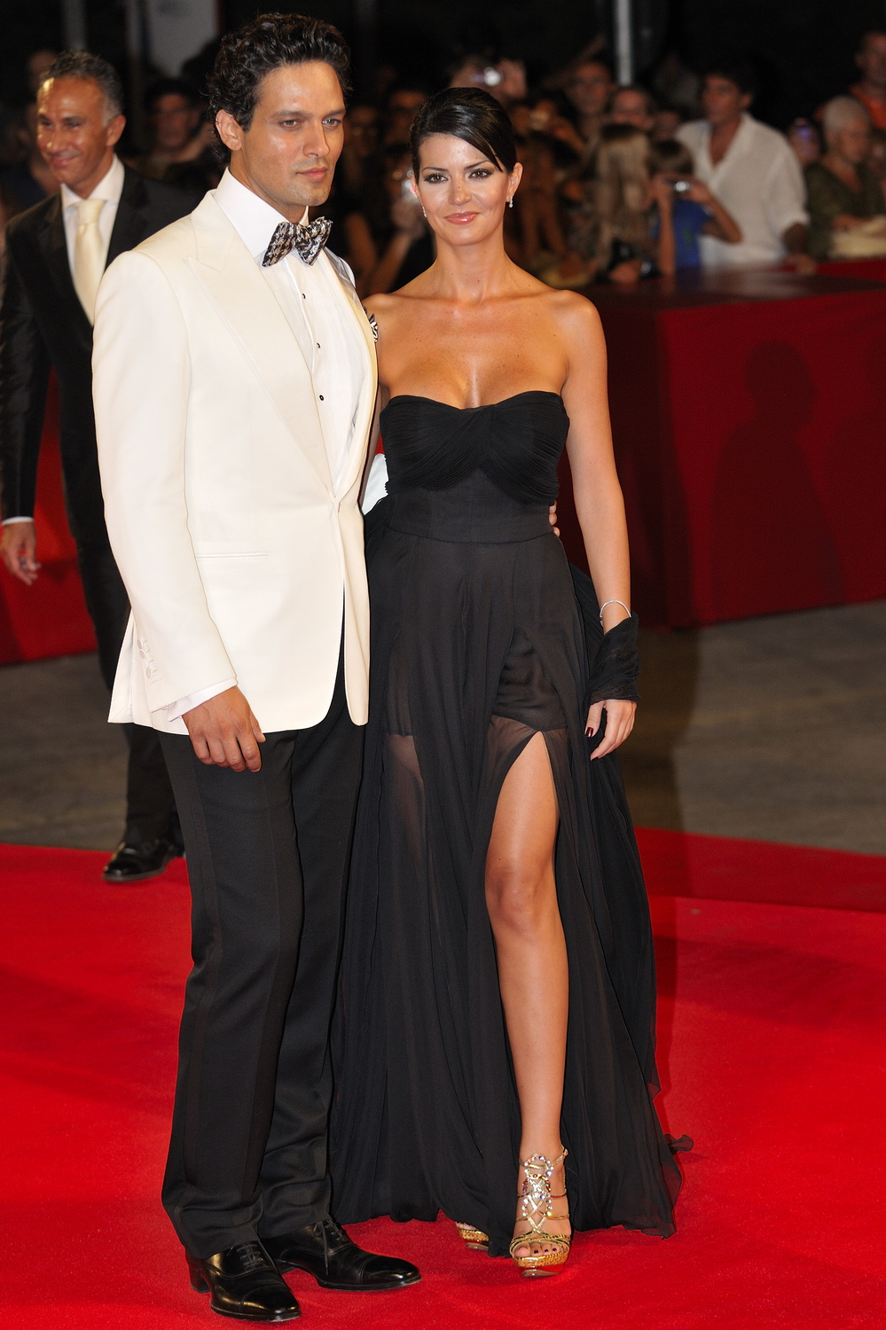 Laura Torrisi and Gabriel Garko attends 'The Road' premiere at the Sala Grande during the 66th Venice Film Festival on September 3, 2009 in Venice, Italy.